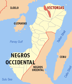 Map of Negros Occidental showing the location of Victorias